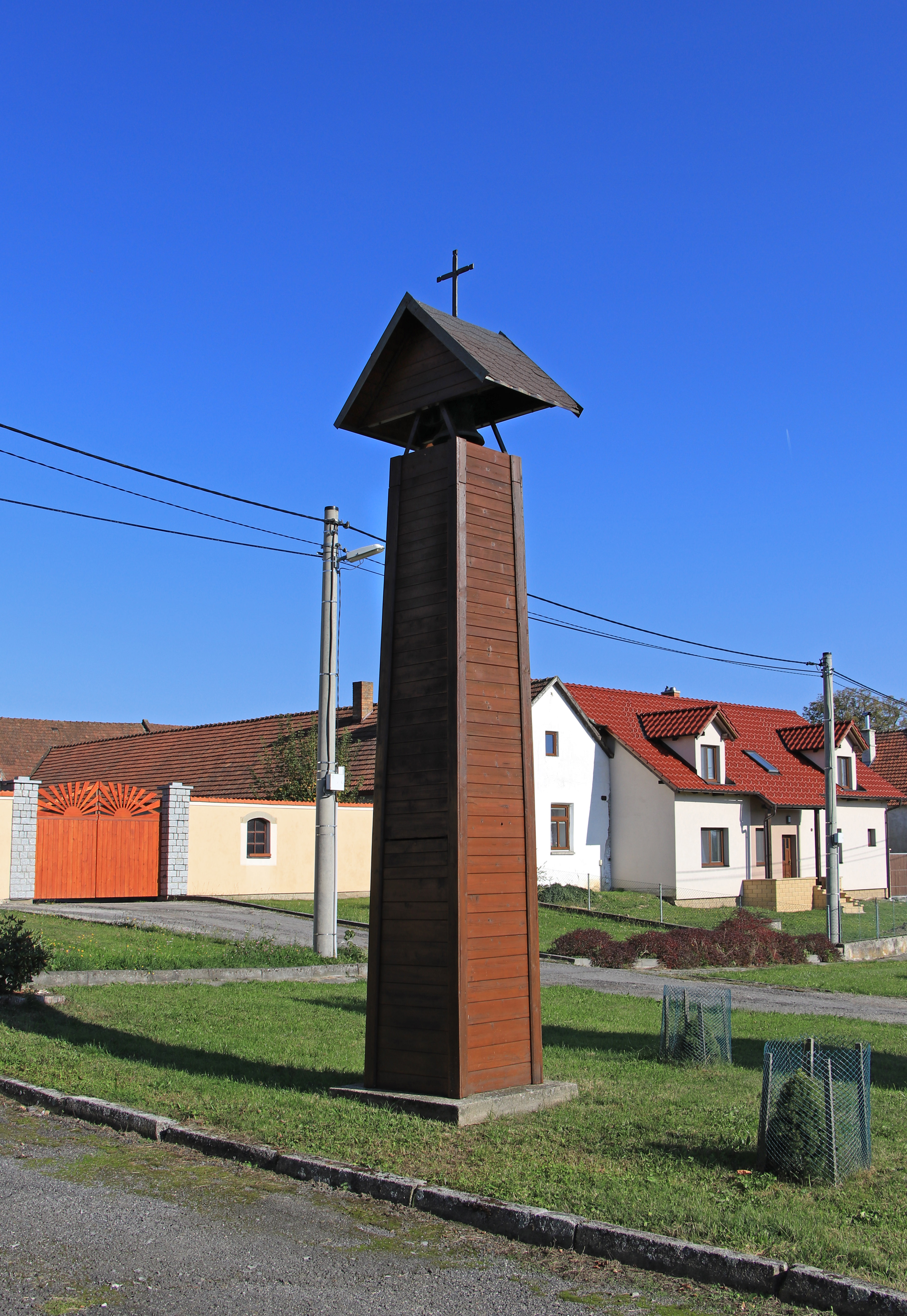 Wooden bell tower in Bezděčín, part of Batelov, Czech Republic.